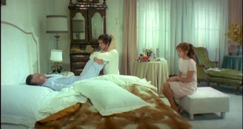 Screenshot from Teorema directed by Pier Paolo Pasolini